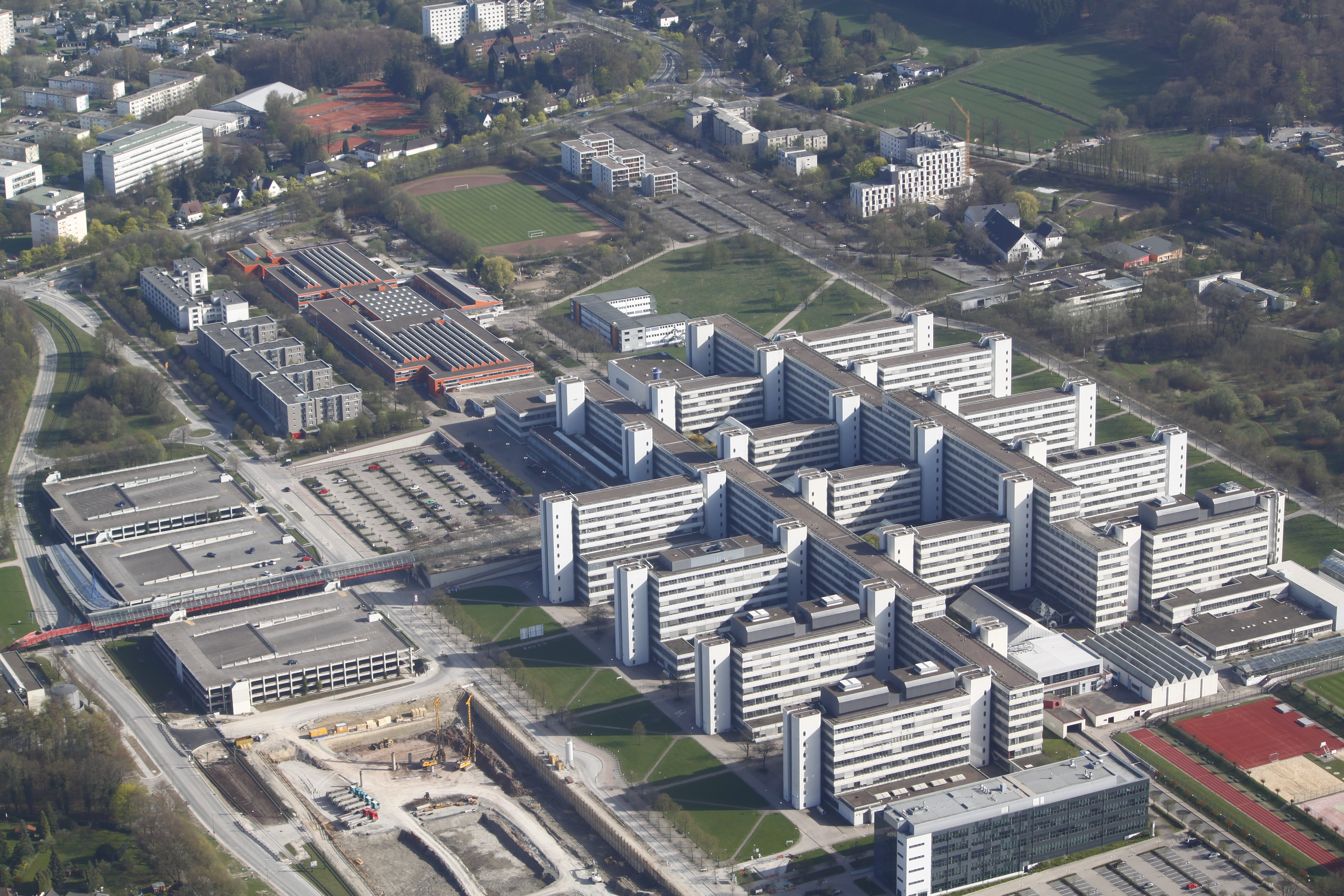 Aerial shot of Bielefeld University. Note the construction site for the new building "X", finished August 2014.